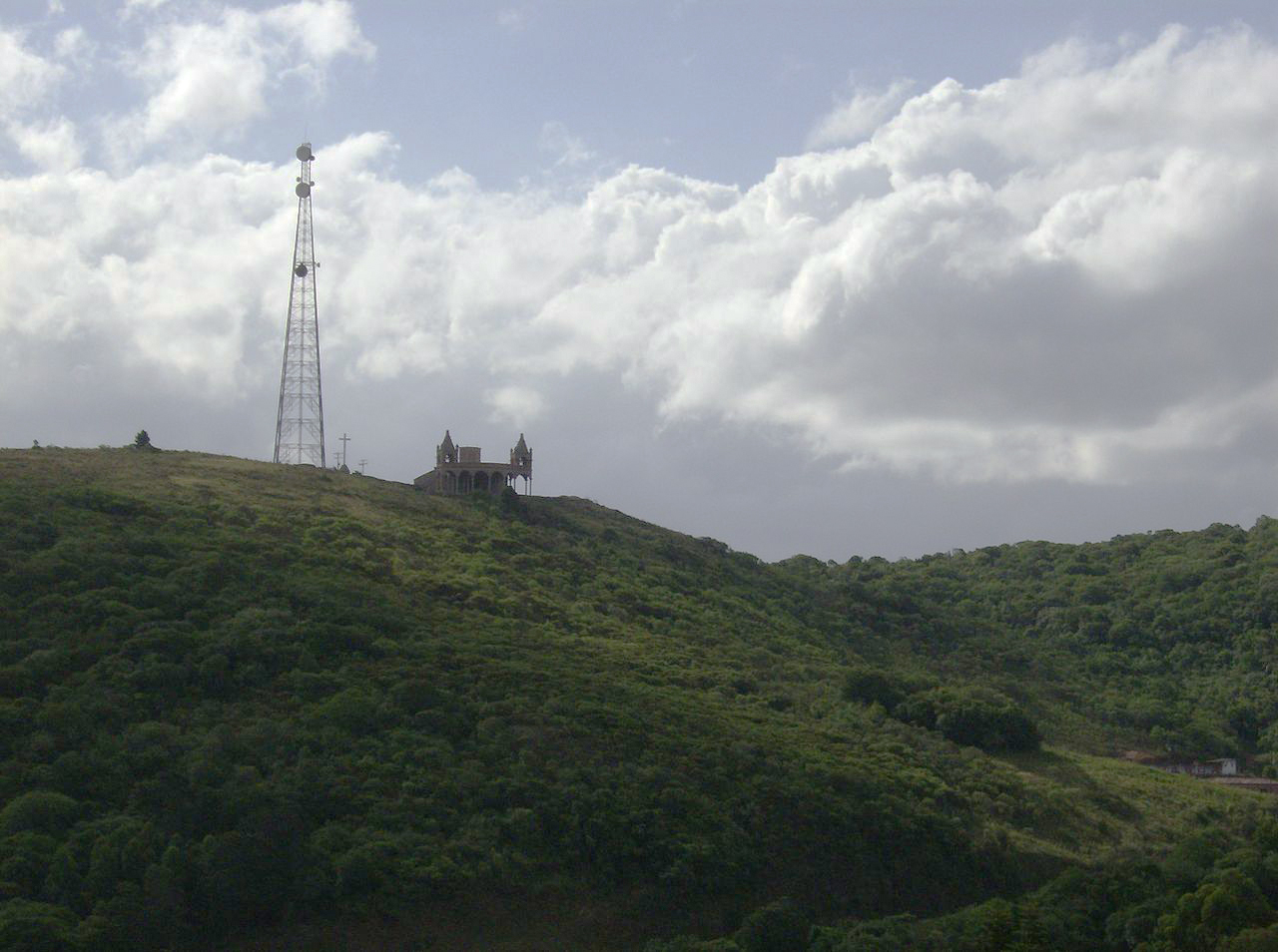 A hill in Canguçu (city in the southern Brazil)